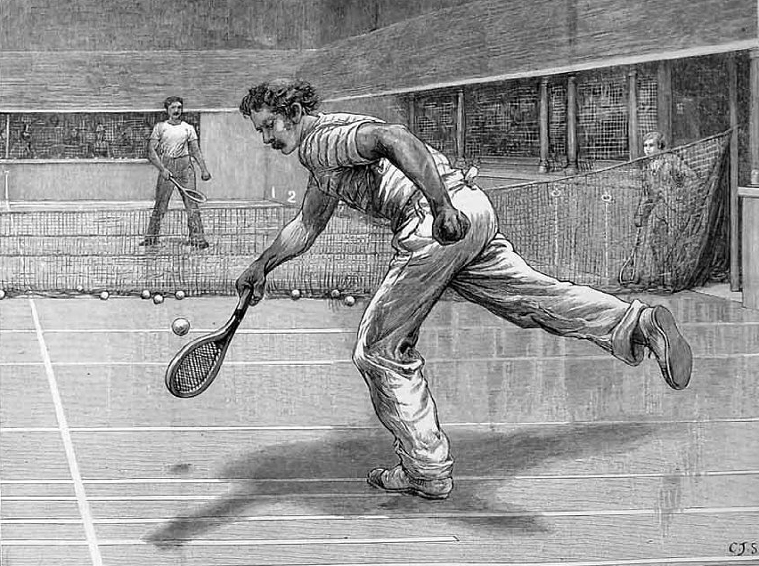 Opening of the New Prince's Club, Knightsbridge, by the Prince of Wales, the Tennis Match between Mr A Lyttleton and C Saunders.